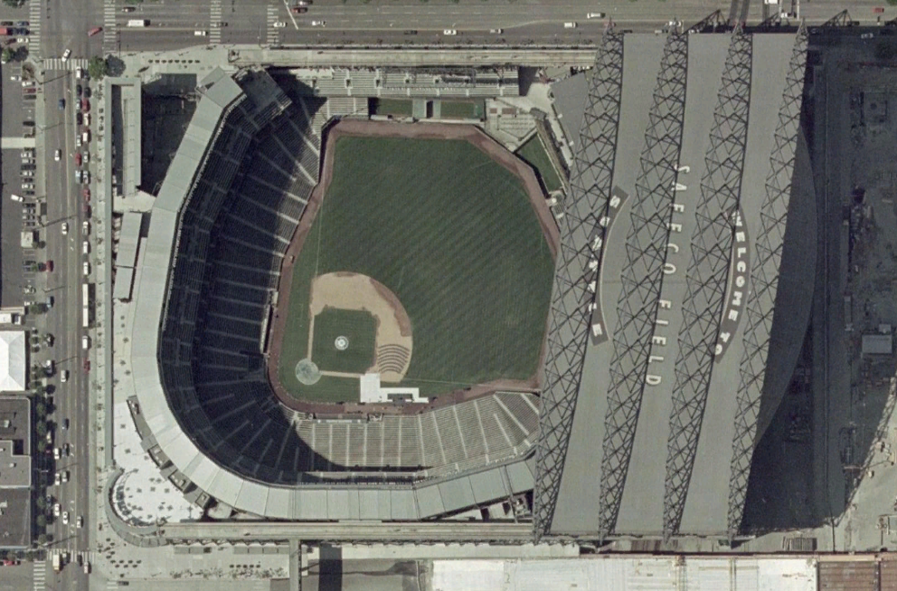 Safeco Field satellite view, nasa world wind 1.3.5